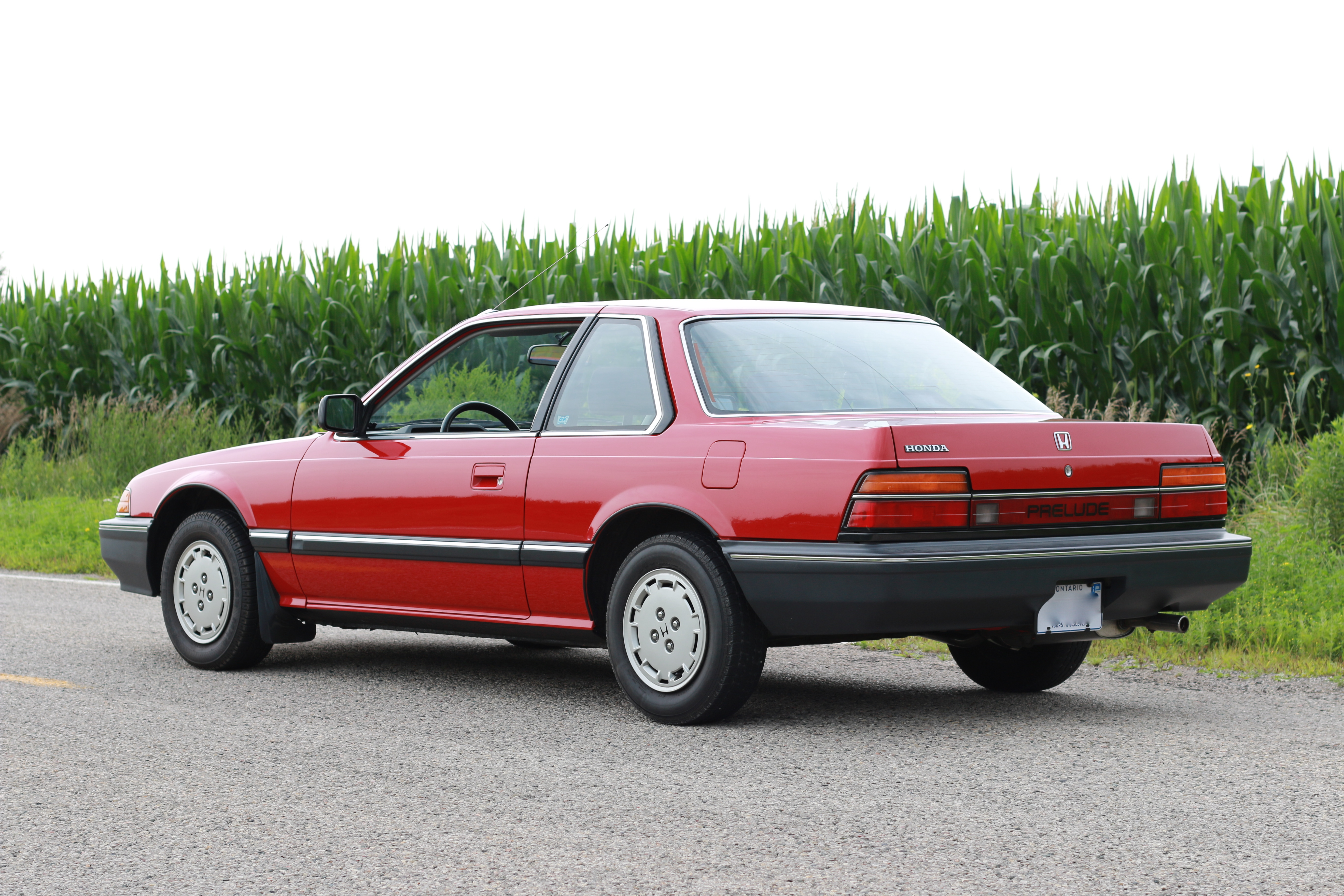 Second generation Honda Prelude. 1987, Base 1.8L DOHC, 5 Speed Manual. August 2014. 114,000 km. Canadian Car never winter driven.